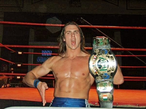 Drew Galloway as IWW Champion at Real Quality Wrestling